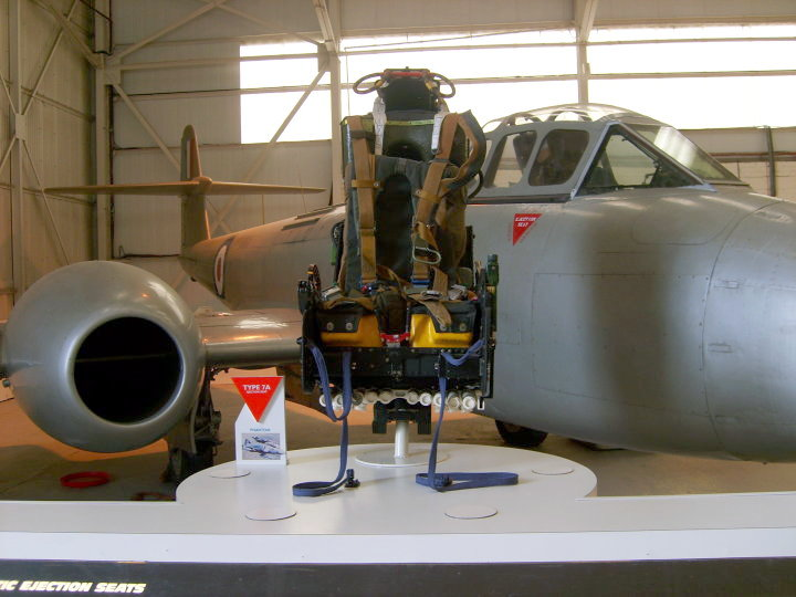 Ejection seat on display at DCAE Cosford.